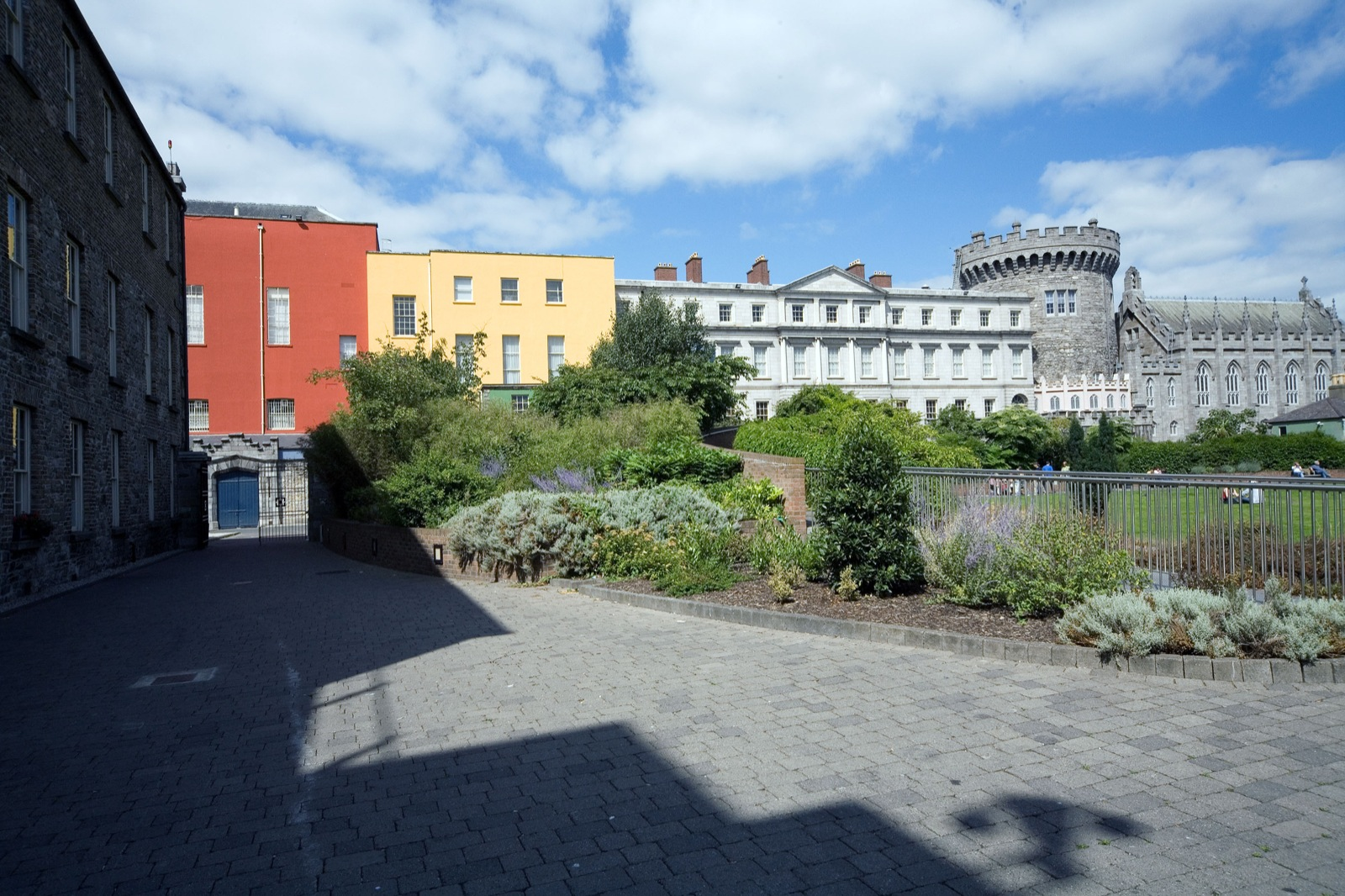 Colourful parts of Dublin Castle (Irish: Caisleán Bhaile Átha Cliath) in Dublin, Republic of Ireland.